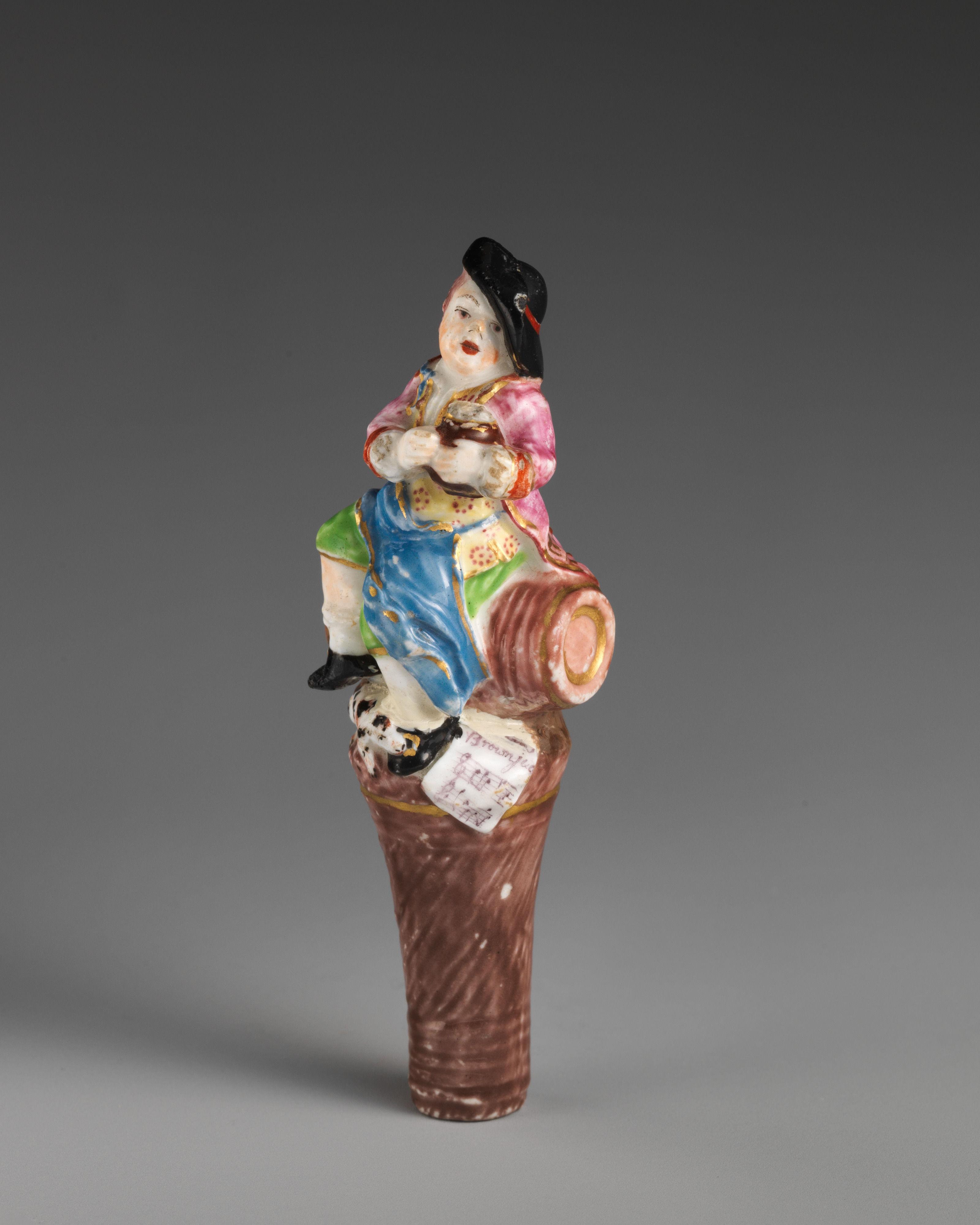 British, Chelsea; Toy; Ceramics-Porcelain